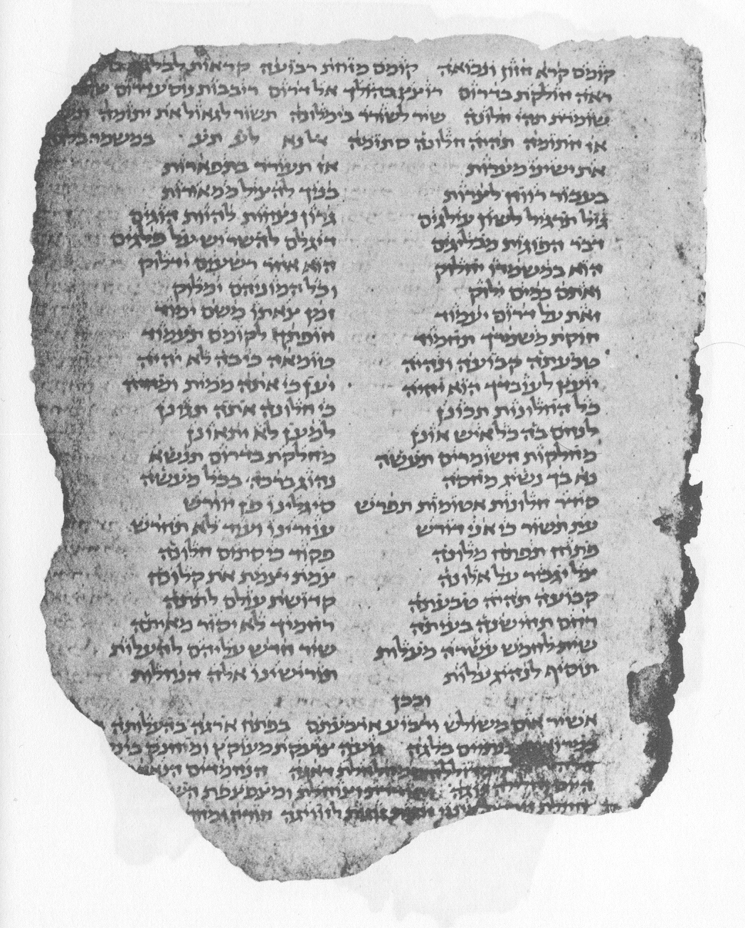 Example of Palestinian vocalization